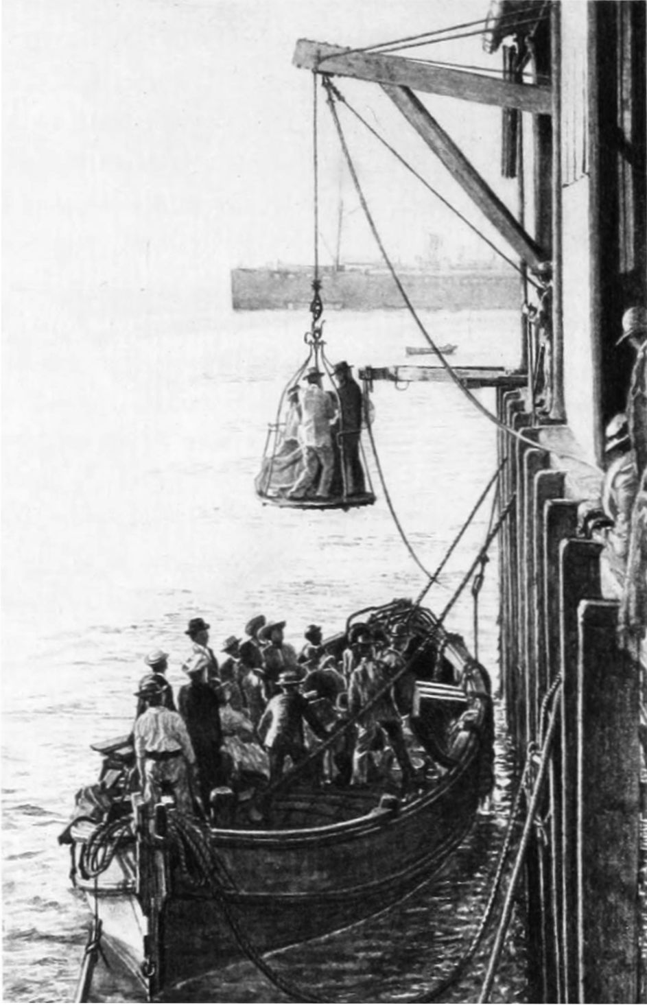 People landing at Puerto de San Jose in Guatemala, 1898.